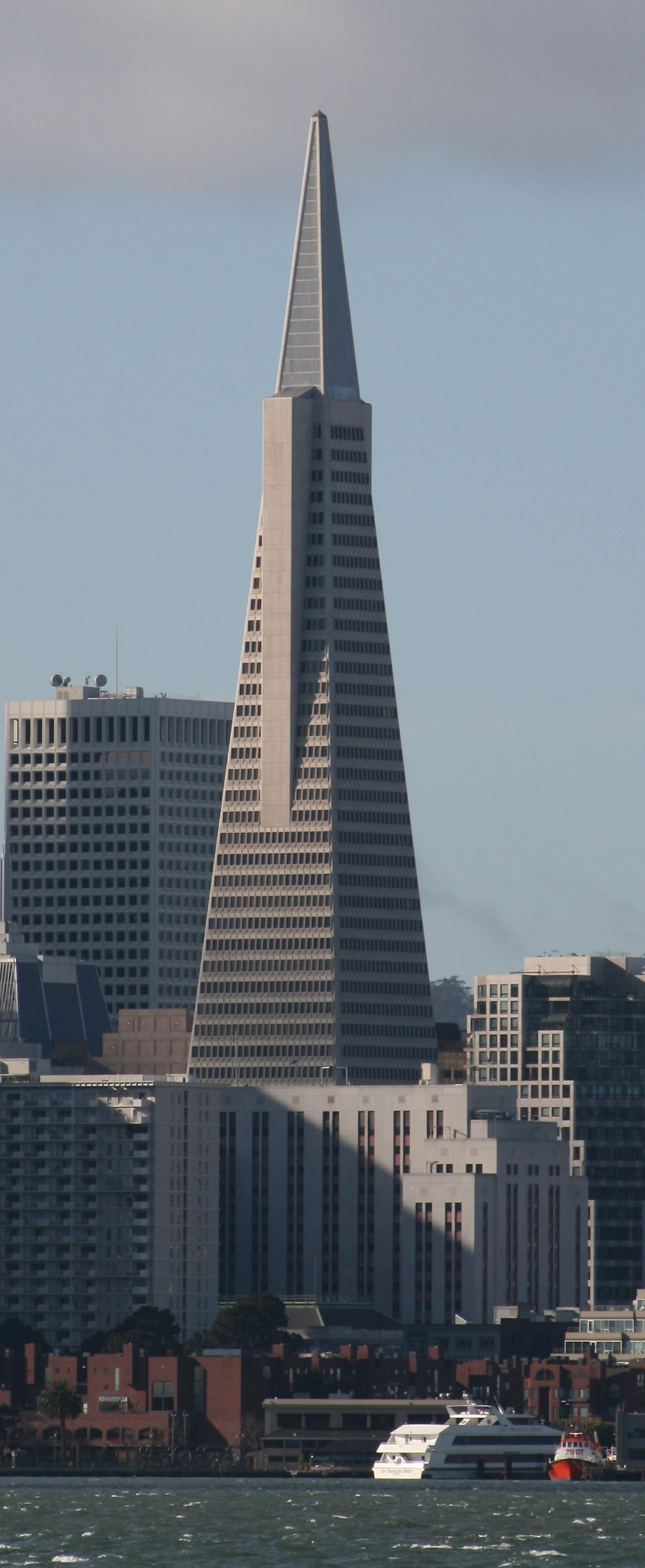 Transamerica Pyramid, San Francisco, imaged from Treasure Island. For earthquake and wind protection, the building employs the concept of Building elevation control (For Russian article seeru:Демпфирование вертикальной конфигурацией)